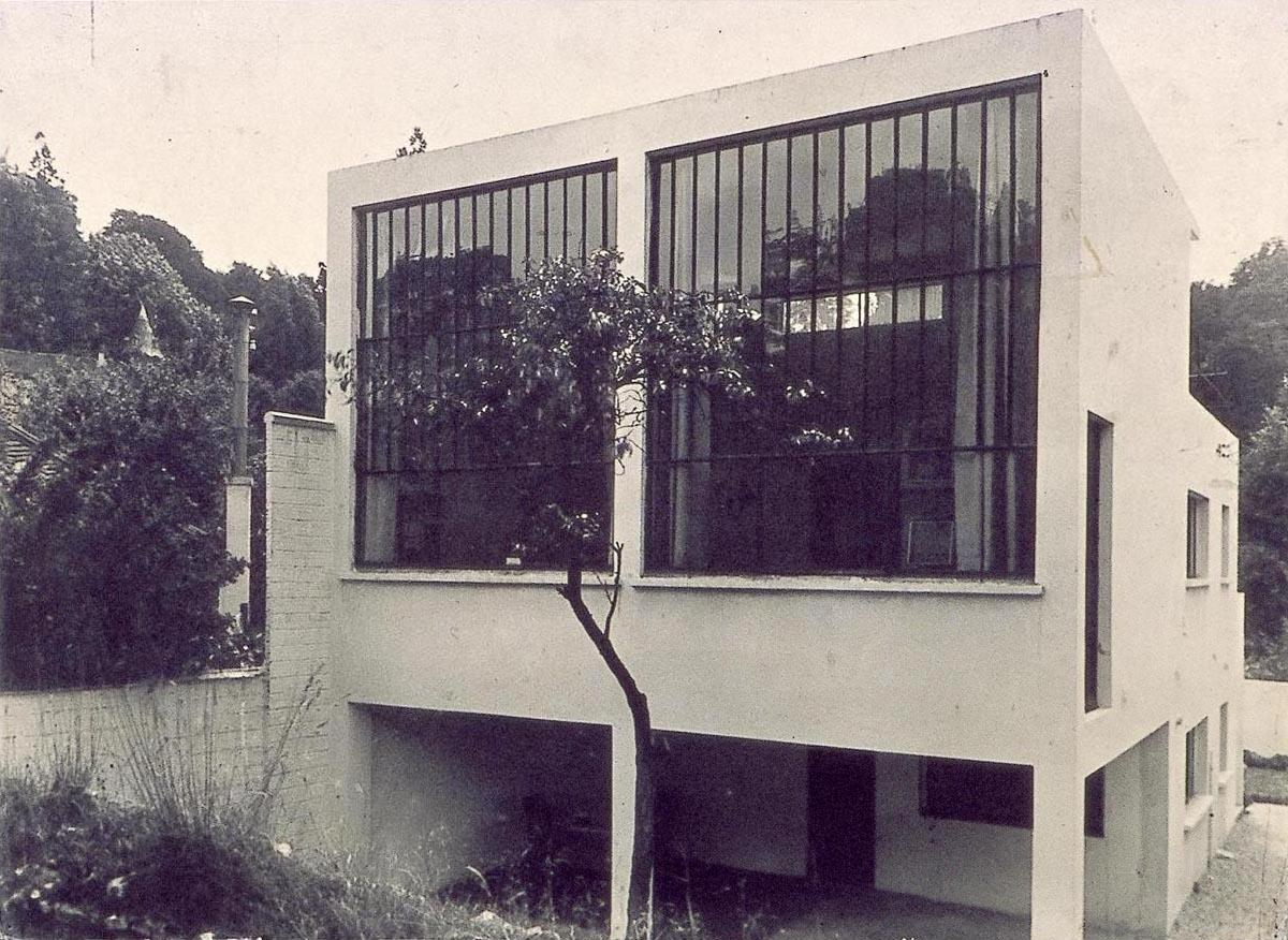 Theo van Doesburg. Back view of the Van Doesburg House, 29 rue Charles Infroit, Meudon-Val-Fleury. 1930. Photo. The Netherlands Institute for Cultural Heritage (inv.nr. AB5388).